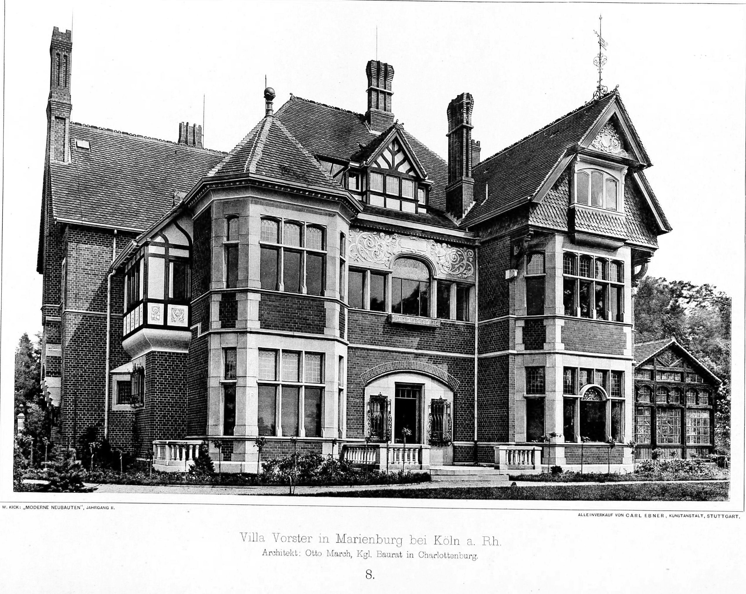 t